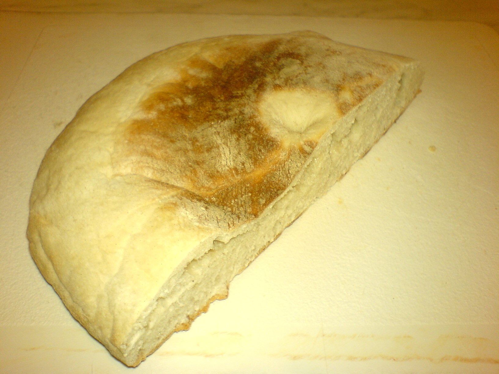 Stottie or Stotty Cake cut in half.